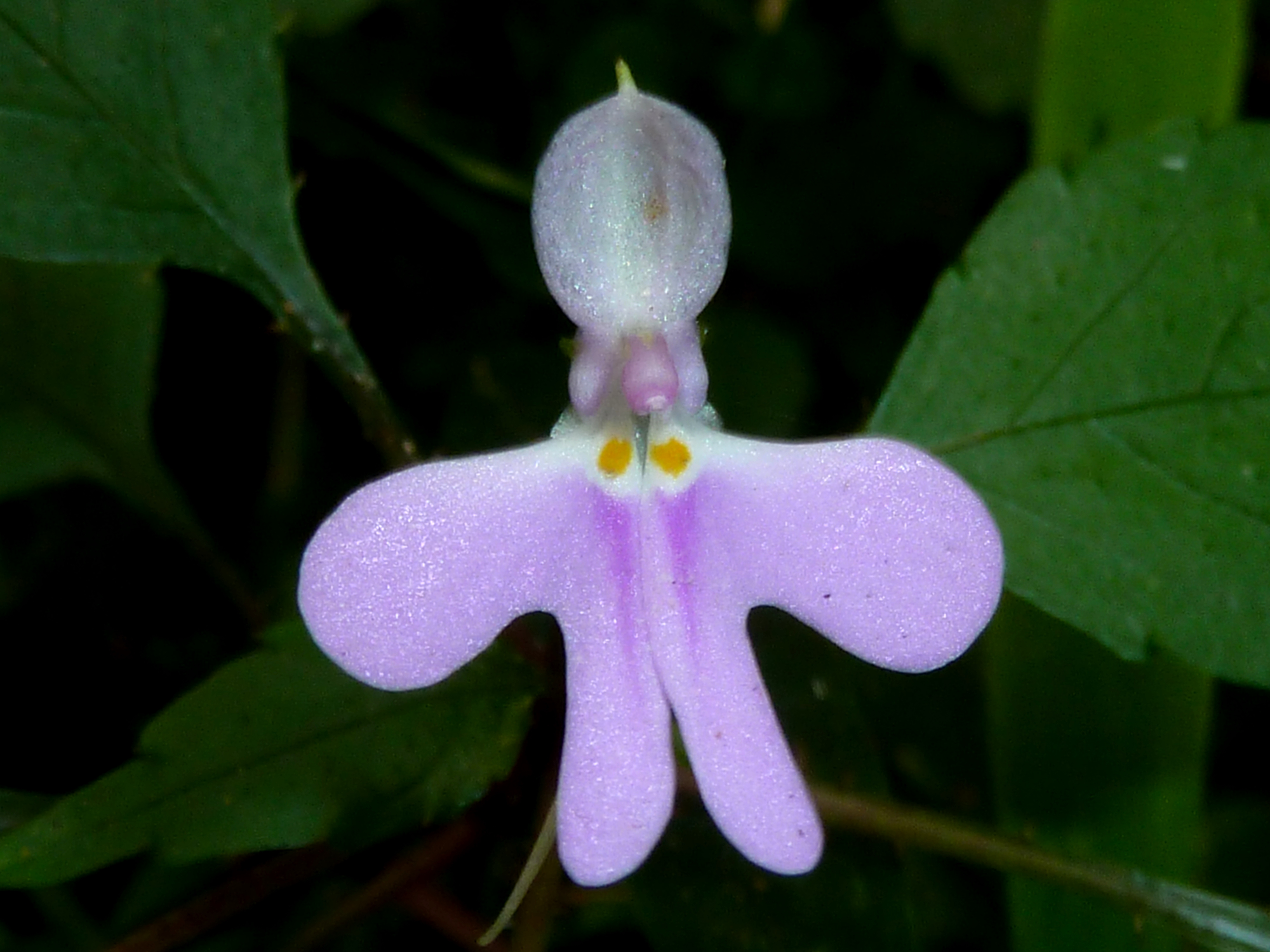 Flower of Impatiens hochstetteri in Krantzkloof Nature Reserve, KwaZulu-Natal